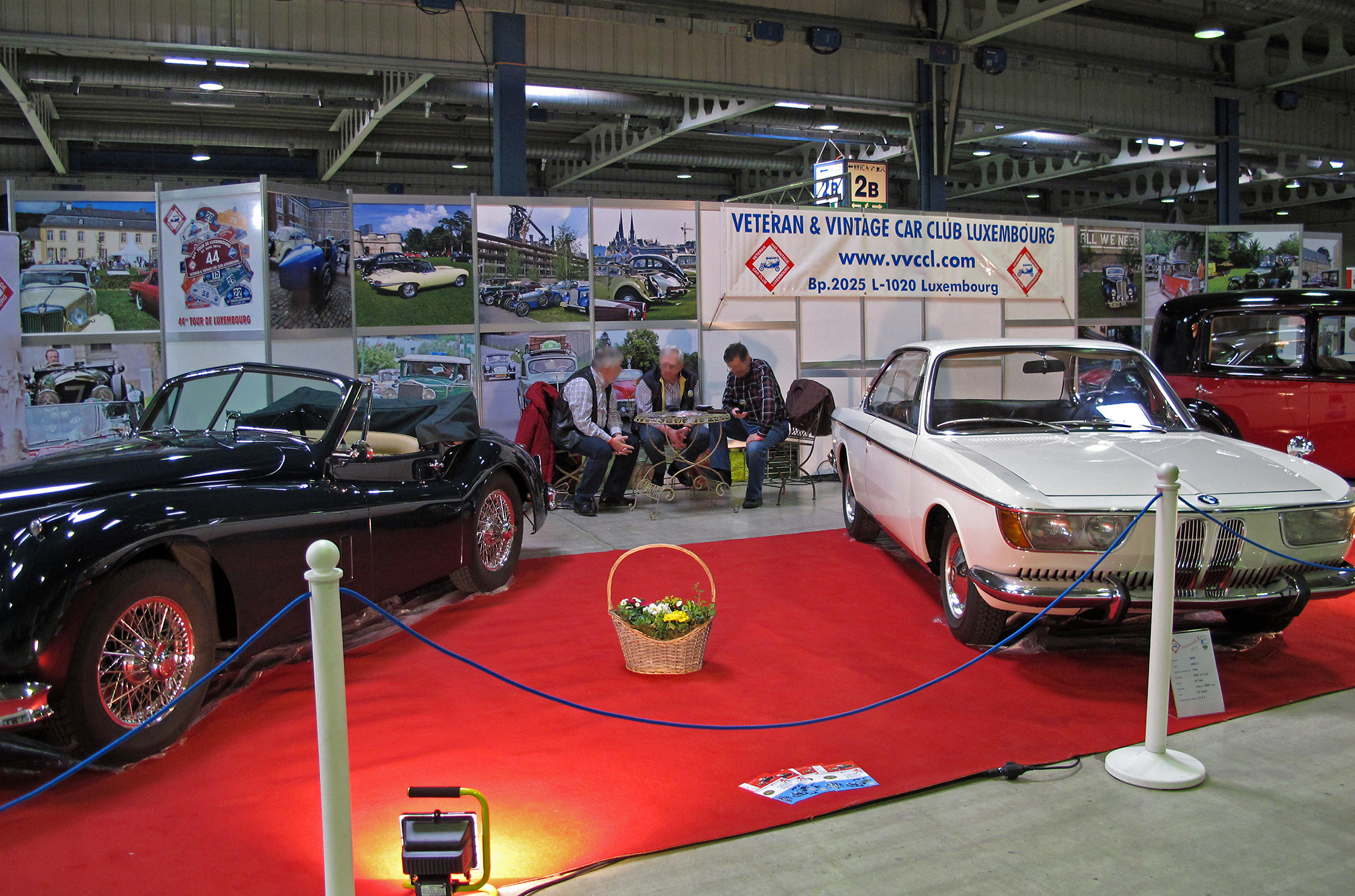 A part of the committee of the MG Car Club Luxembourg on their booth at the Autojumble 2014